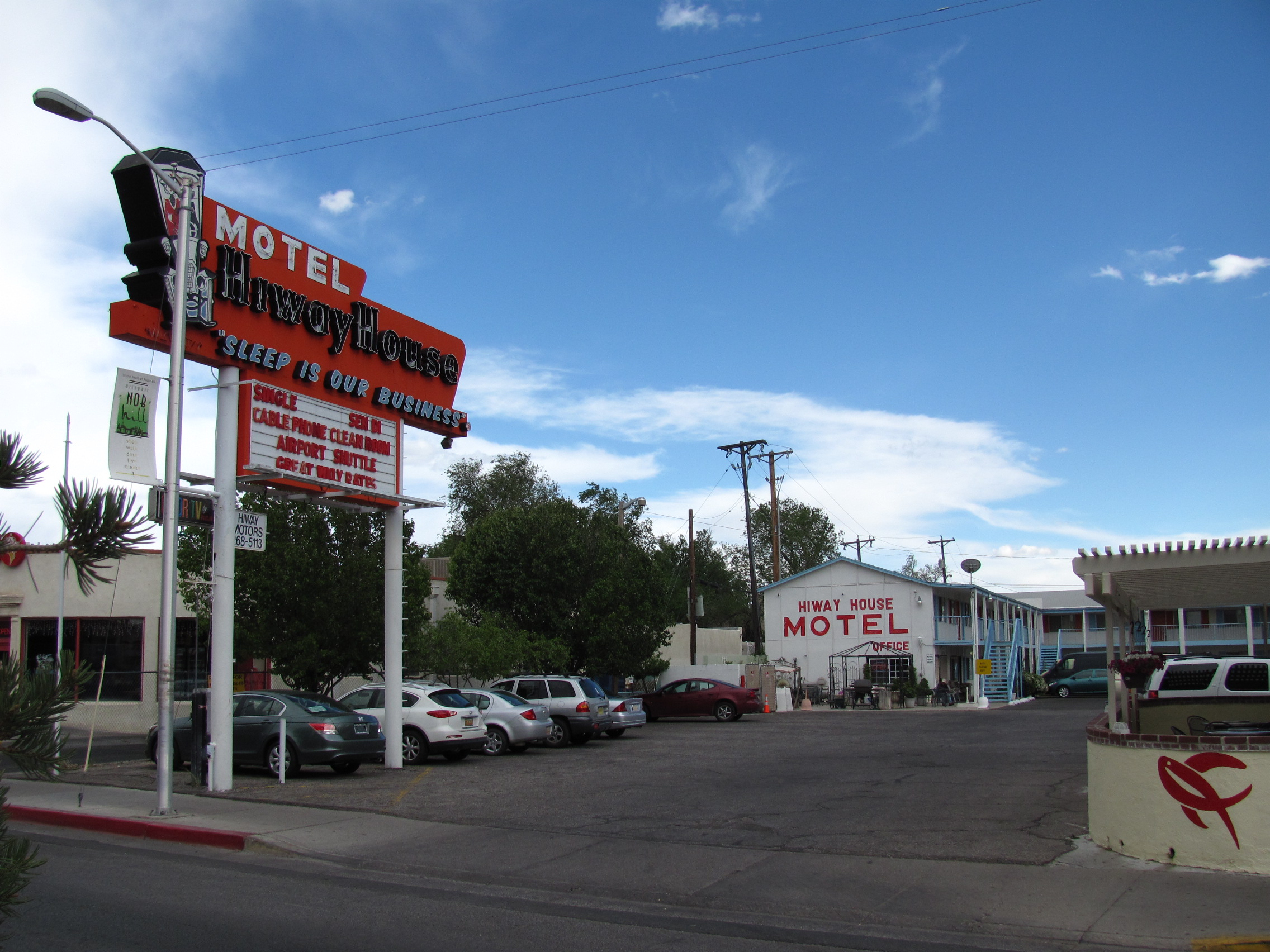 Hiway House Motel on Central Avenue, Albuquerque New Mexico